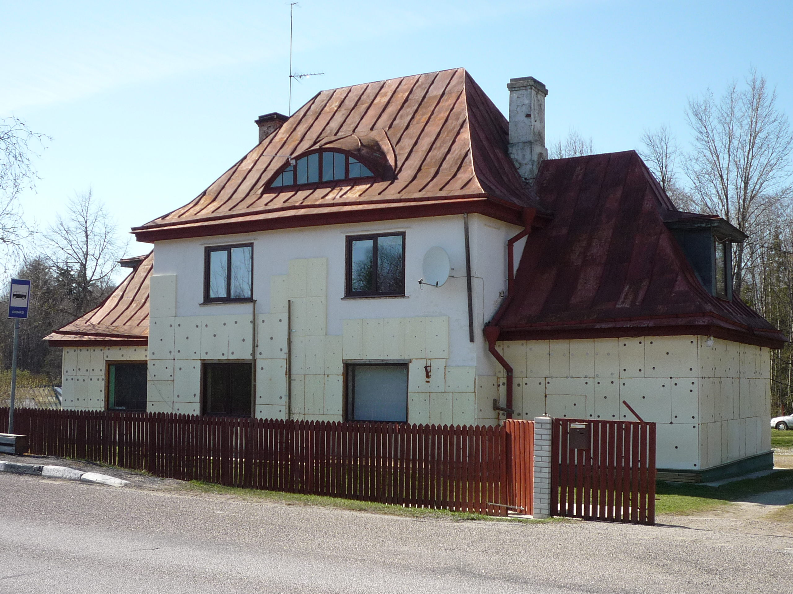 Pühatu old railway station. View from former railway embankment. Rapla county, Estonia.